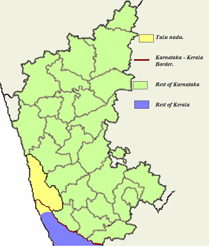 the file was entirely created by me the uploader